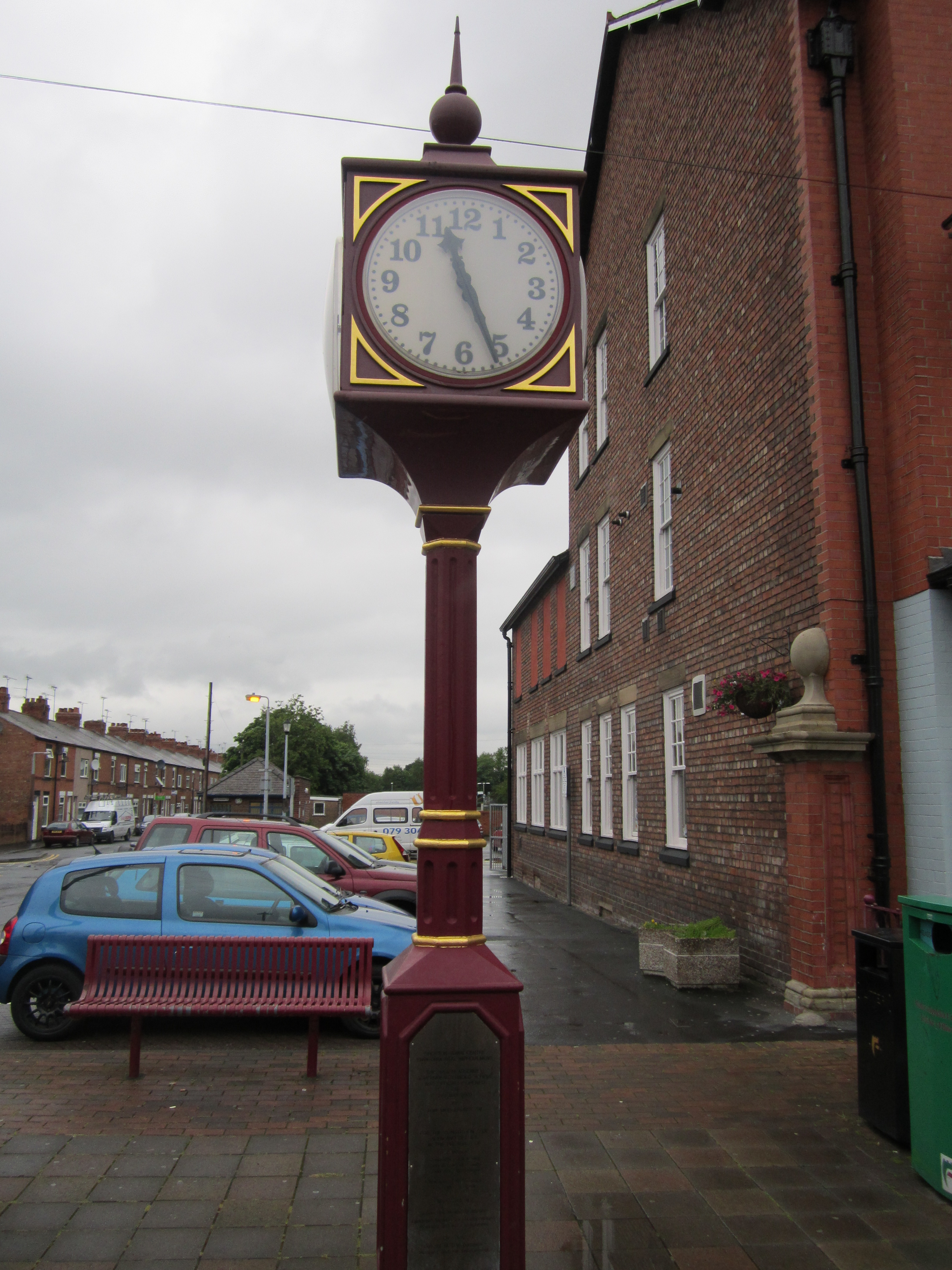 Clock outside Shotton railway station, Flintshire, Wales.